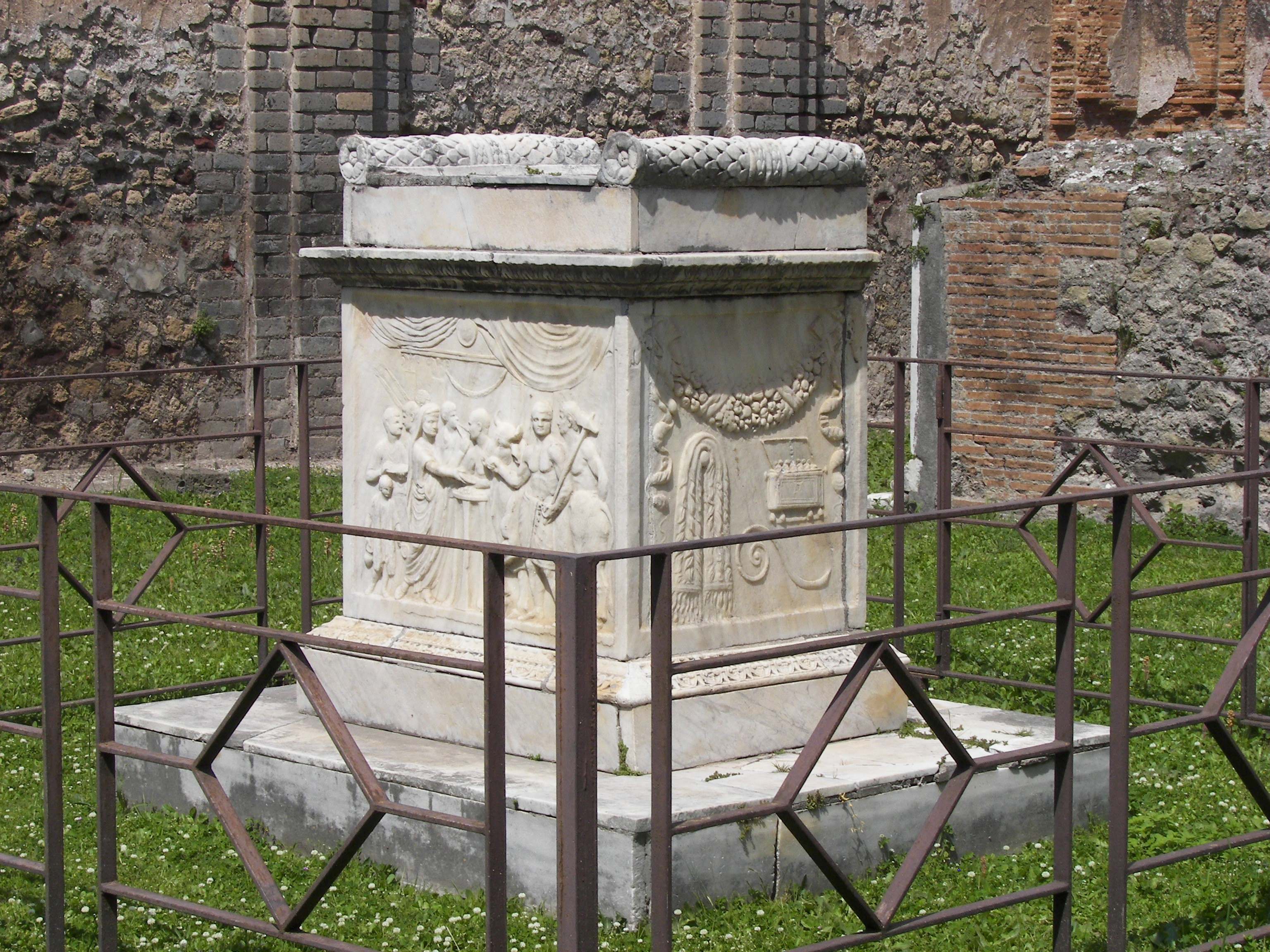 Altar for the Temple of Vespasian in the main forum in Pompeii.